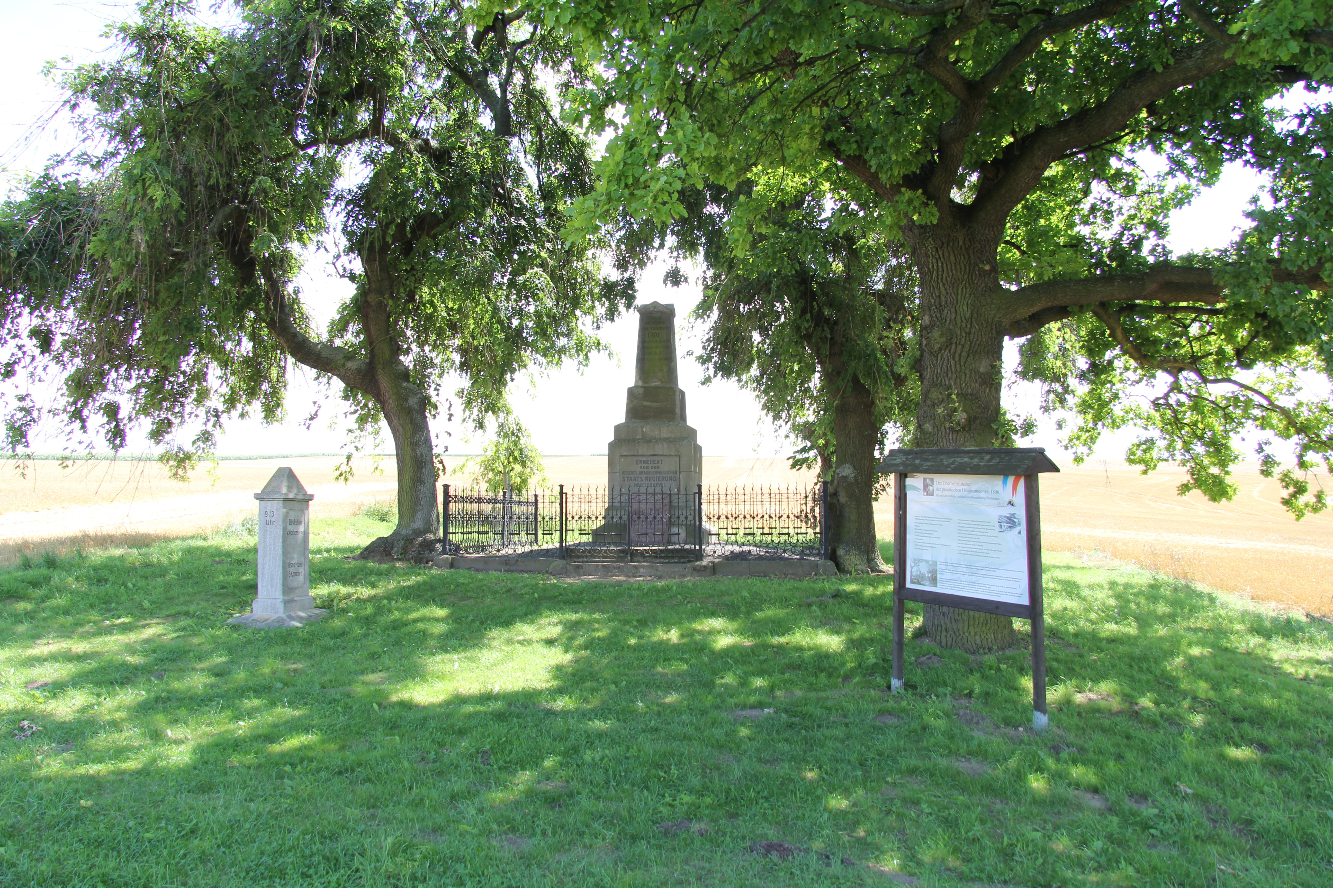 Monument for Charles William Ferdinand, Duke of Brunswick-Wolfenbüttel on a field at Hassenhausen, part of Bad Kösen, Saxony-Anhalt / Germany